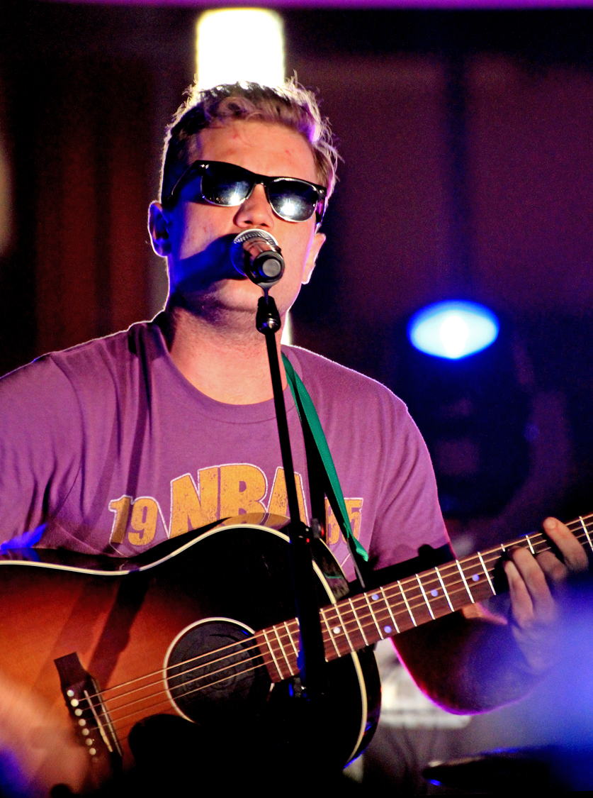 Ashley Buchholz of the Canadian musical duo Ubiquitous Synergy Seeker, during a concert in Brampton, Ontario, in October, 2012.